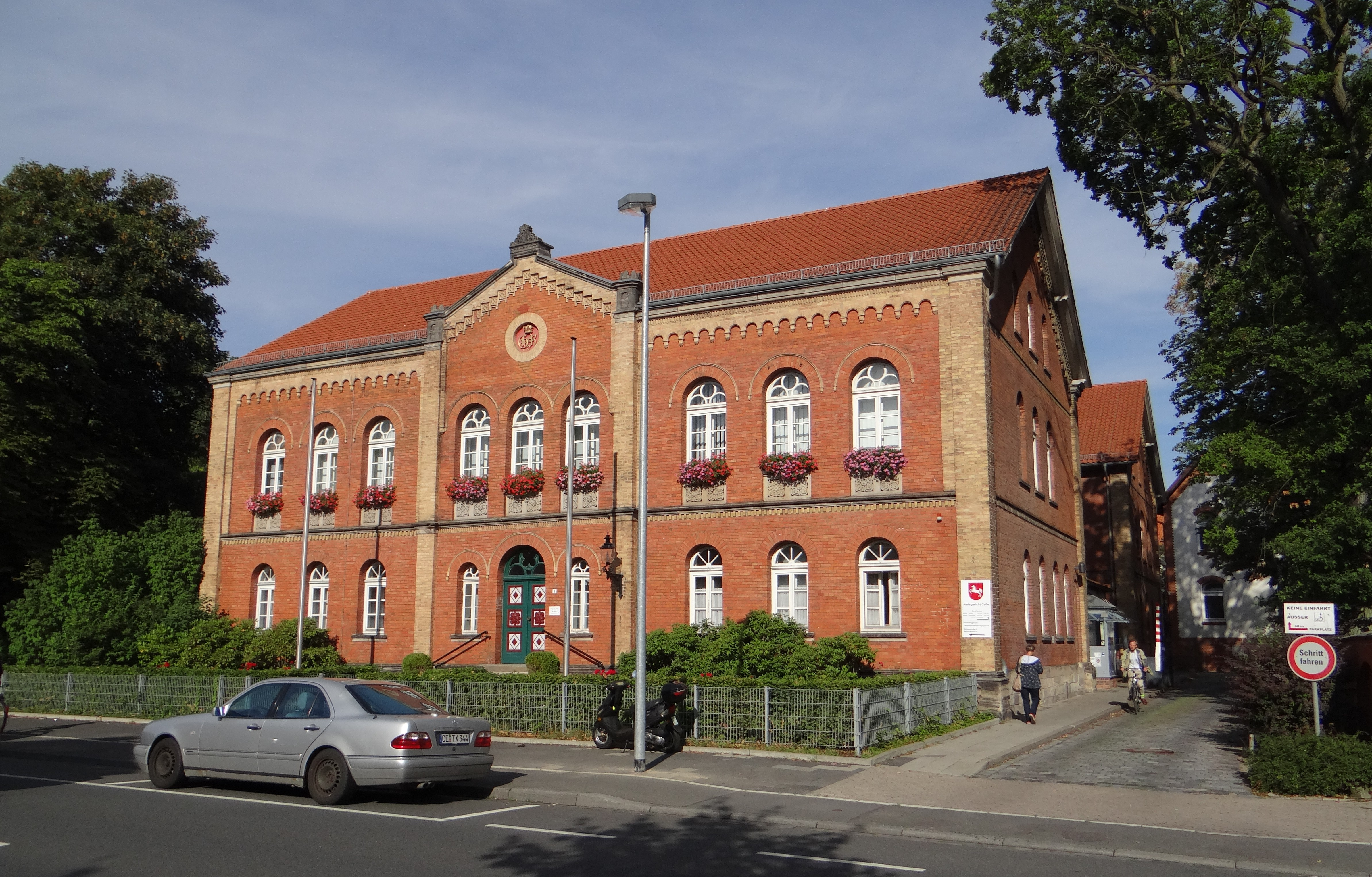 Court house in Celle, Germany.